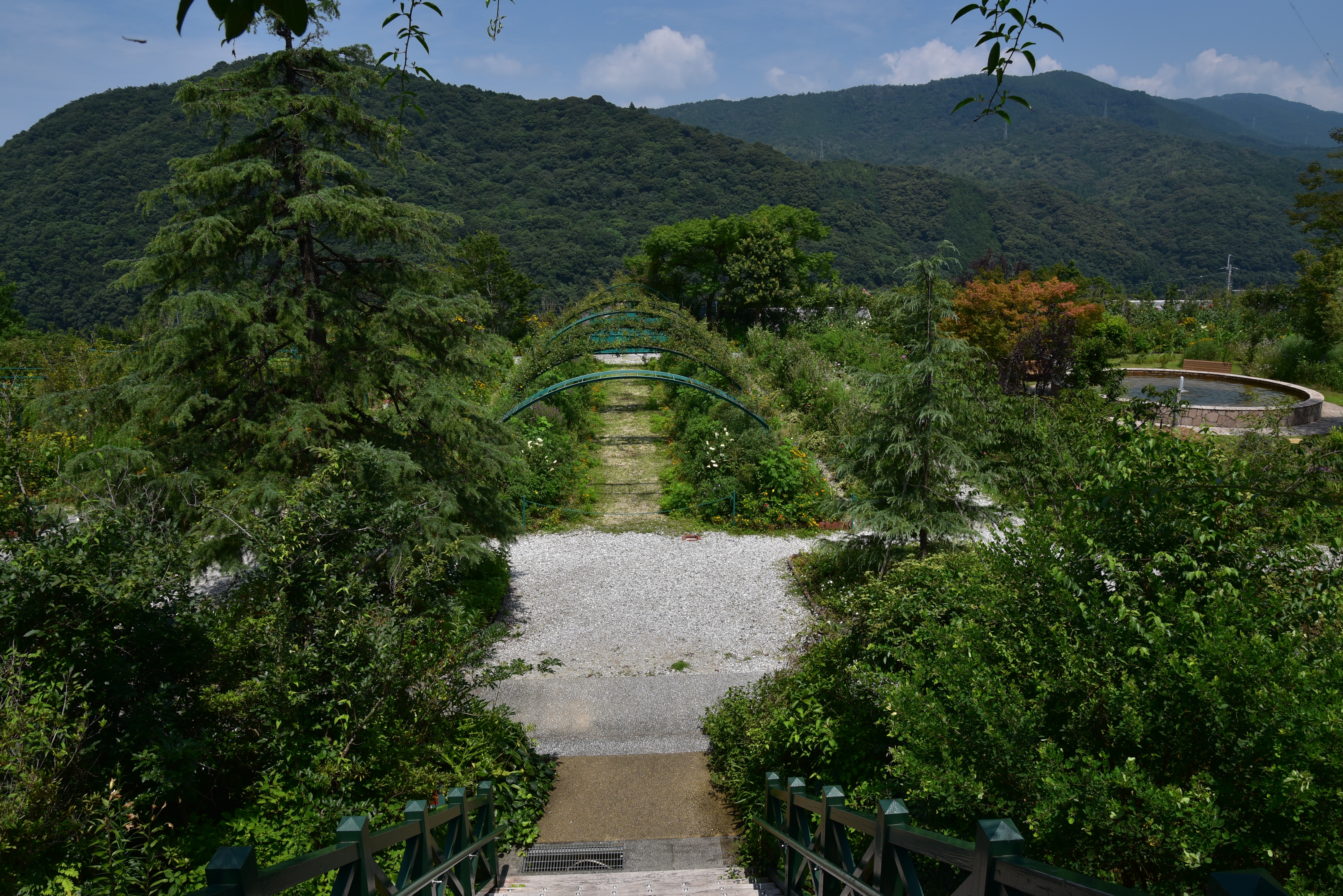 This is not a work of art. Monet of the name has been officially permitted from Monet Foundation. Nikon D750